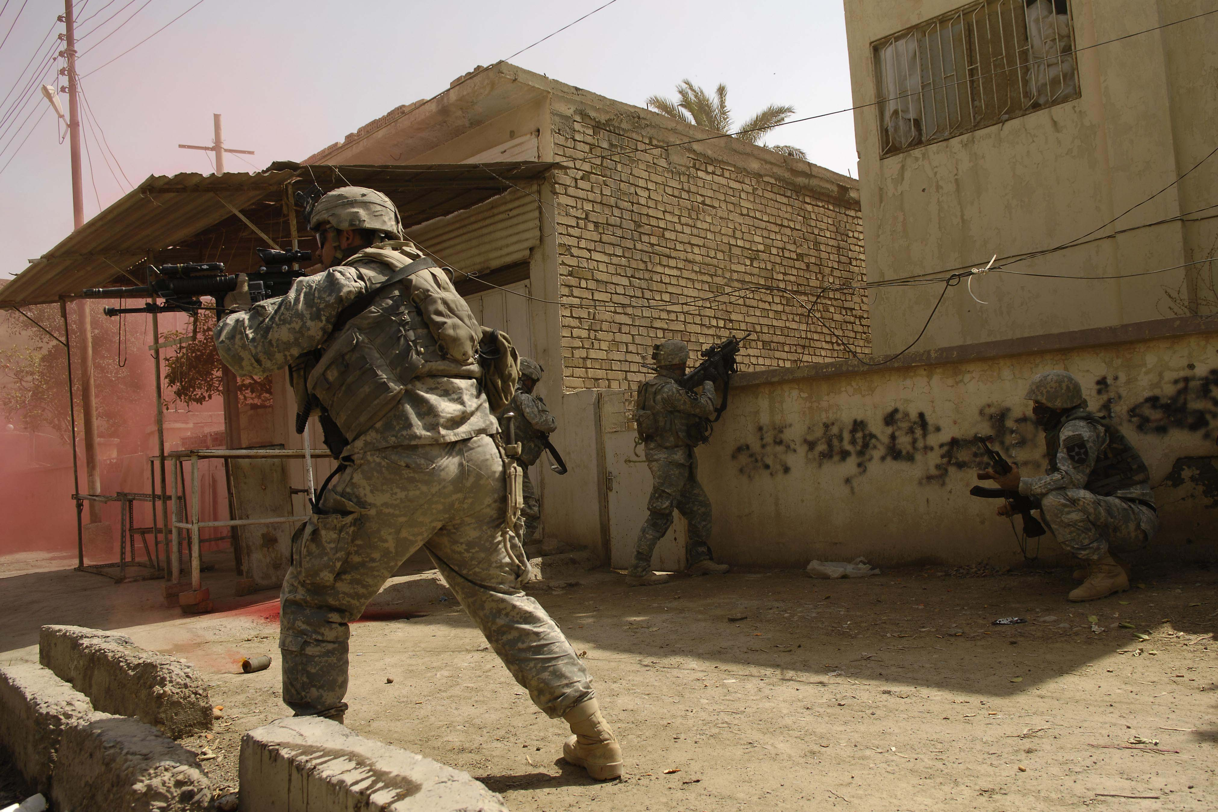 Soldiers from the 5th Battalion, 20th Infantry Regiment, 3rd Brigade, 2nd Infantry Division, attached to the 3rd Brigade Combat Team, 1st Cavalry Division, conduct their first mission in the Diyala province, engaging anti-Iraqi forces in Baqubah, Iraq, March 14.